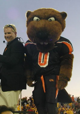 A photo of Oregon State mascot "Benny Beaver".